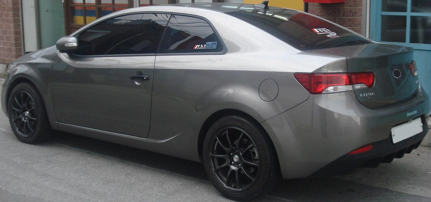 Kia Forte Koup